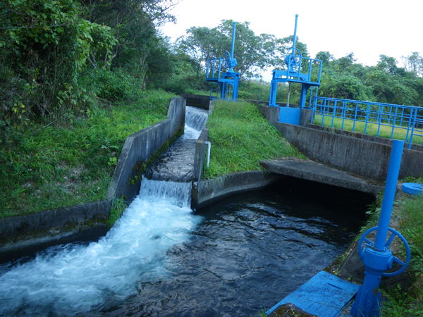 Hikinuma-yōsui aqueduct and Nasu-sosui canal. Nasushiobara, Tochigi, Japan.